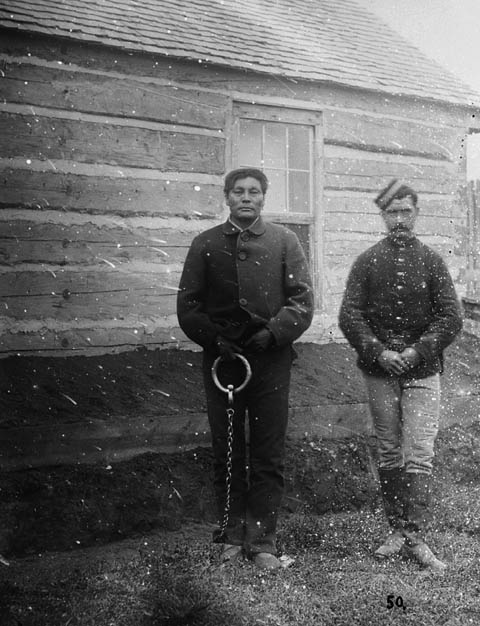 Swift Runner in Fort Saskatchewan, after his arrest